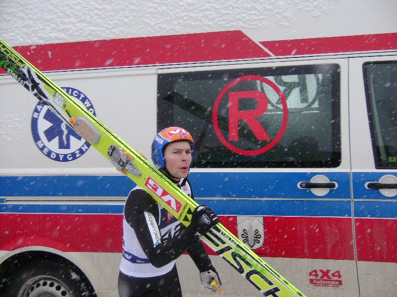 ski jumper Anders Jacobsen from Norway during the World Cup in Zakopane on 27-1-2008